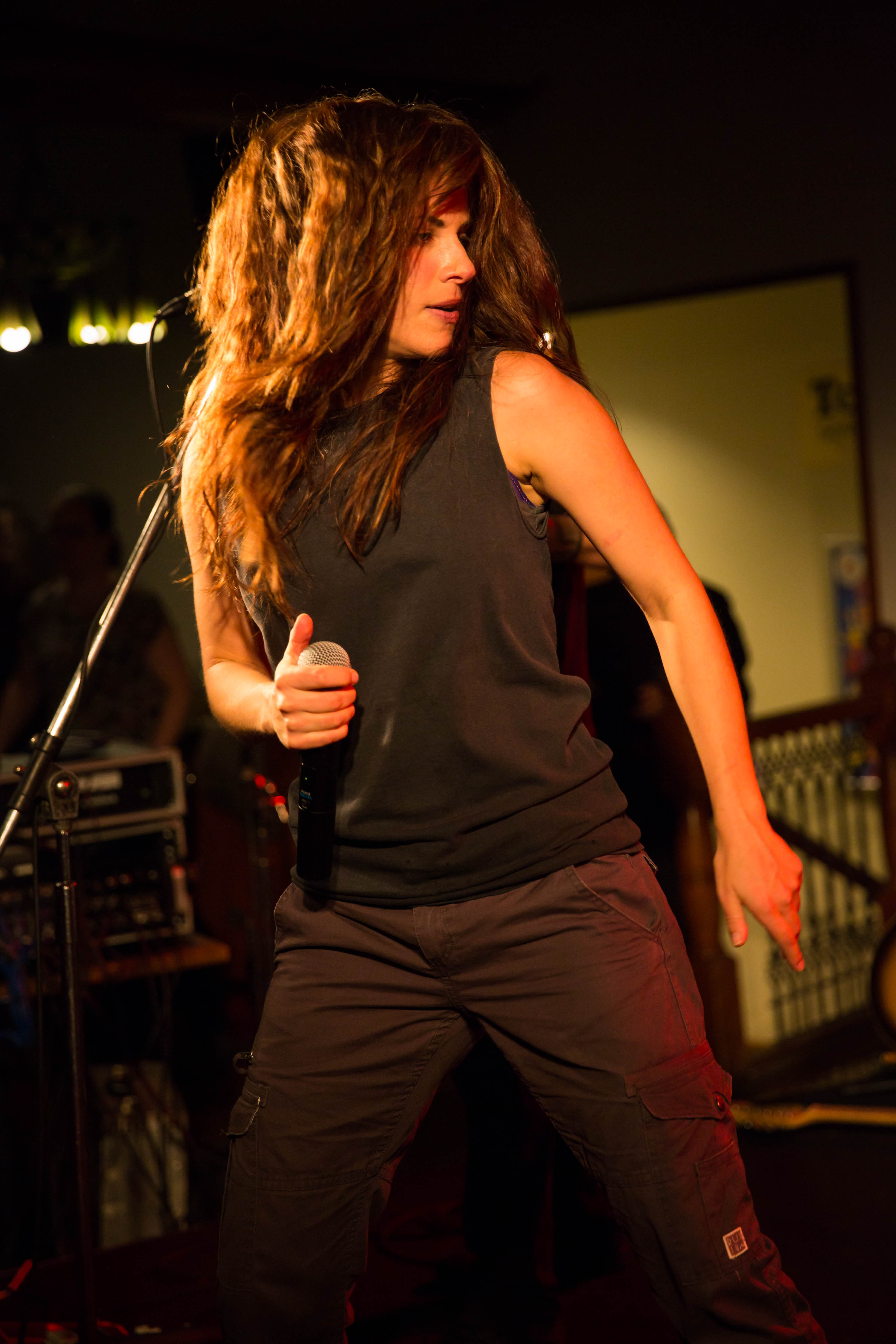 Laura G Rubble of Empire at Gosnells Hotel